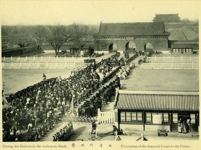 old photo from China 1900-1903, see the file's name for detail.